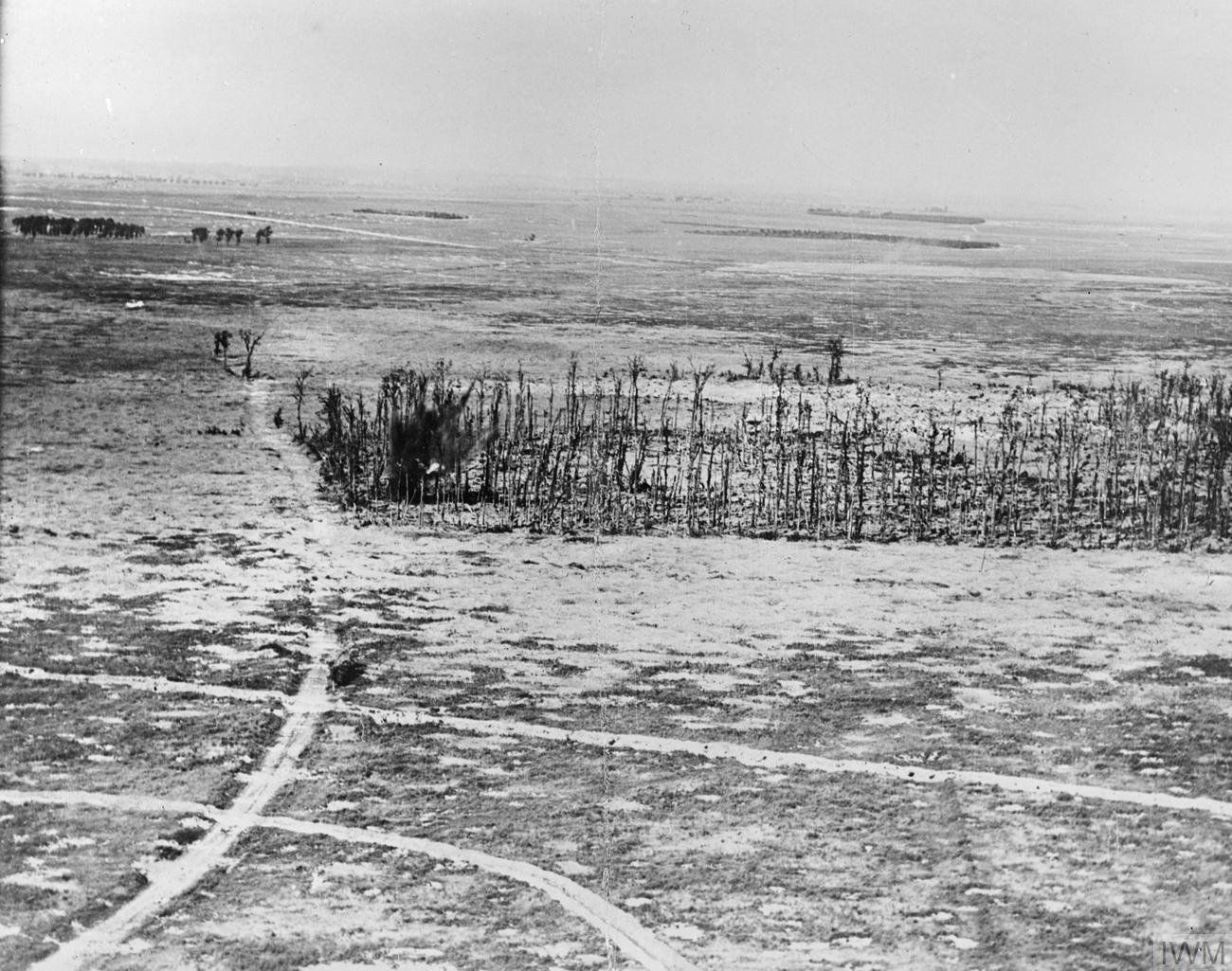 Photography Oppy Wood - Air section.